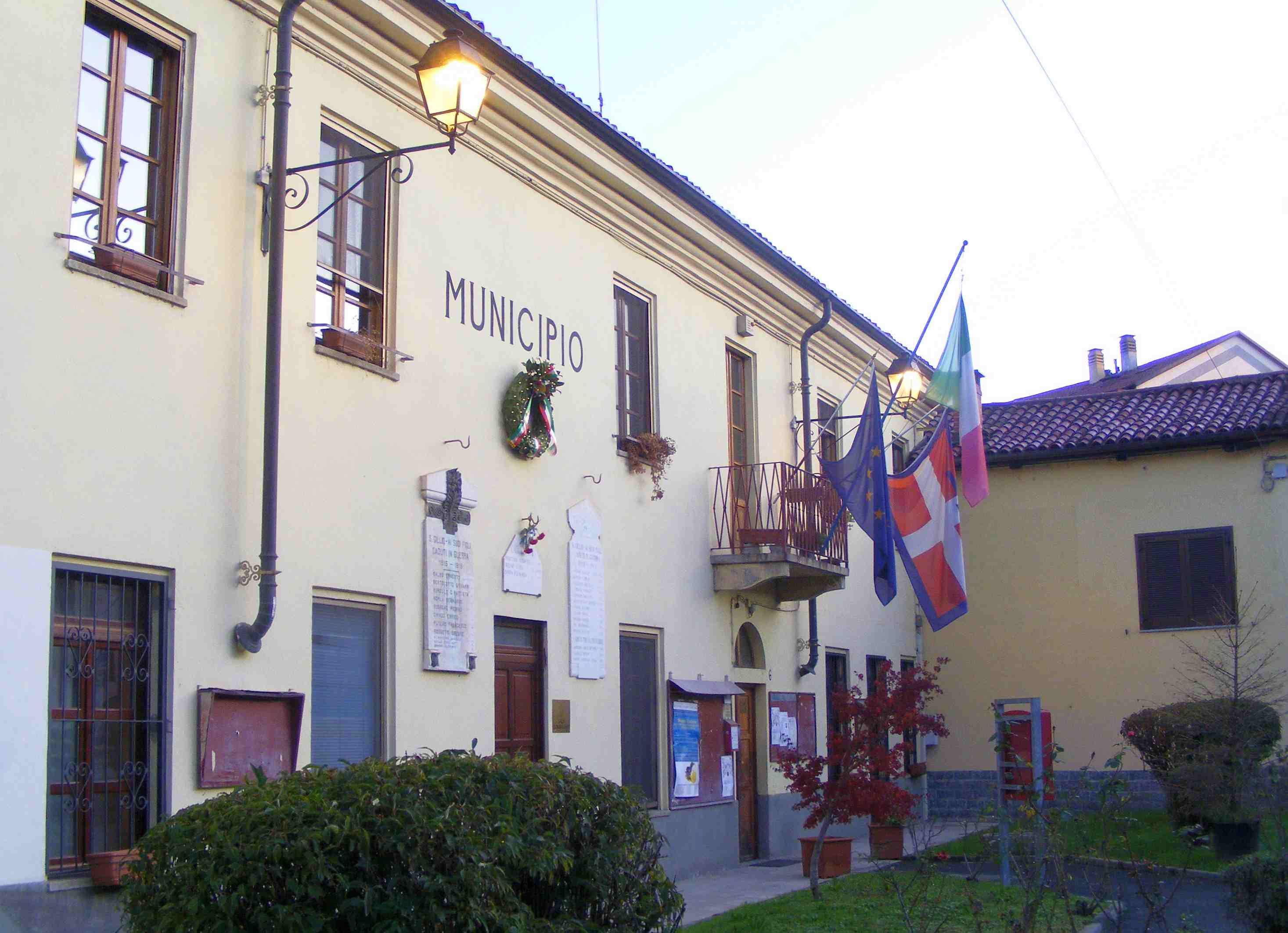 San Gillio (TO, Italy): town hall